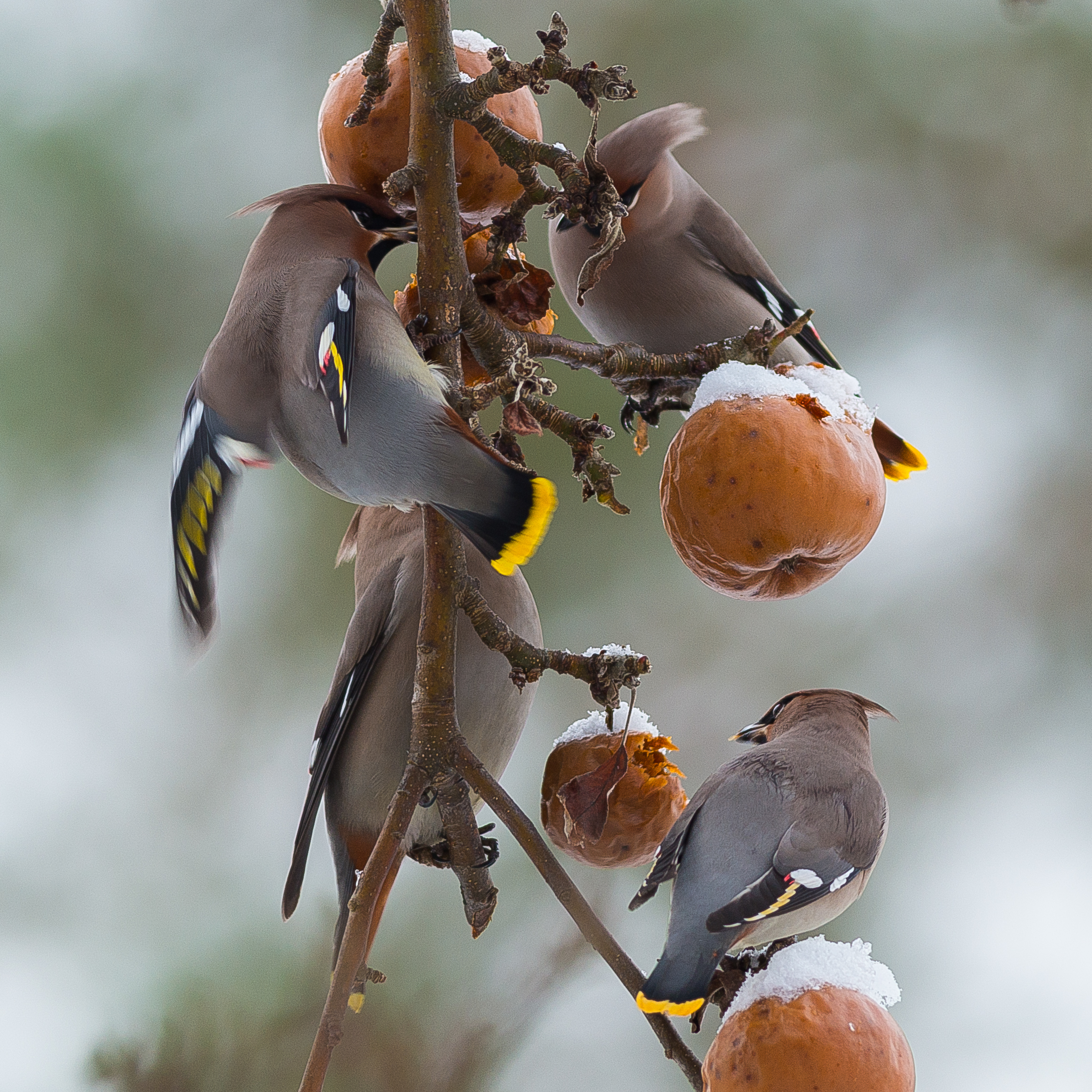 Bombycilla garrulus, bohemian waxwing , sidensvans, Sweden 2015